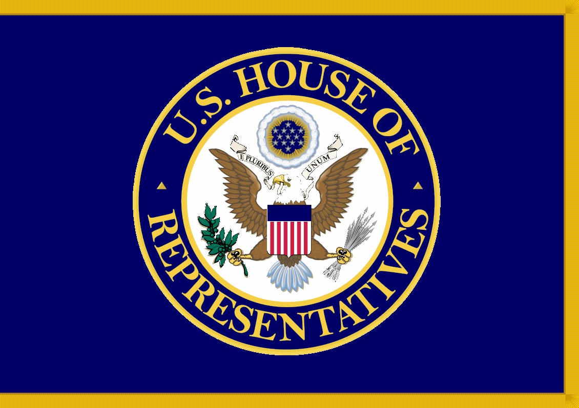 The de facto flag of the United States House of Representatives. However, it is not de jure.